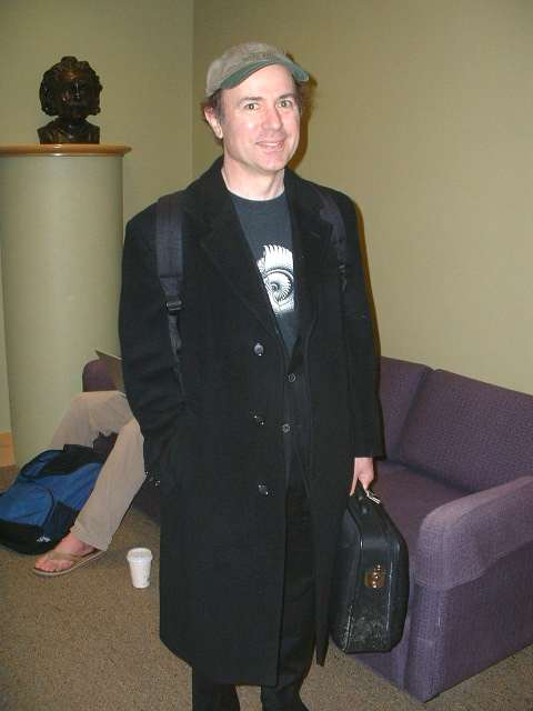 Frank Wilczek at Harvard (photo by Lumidek)